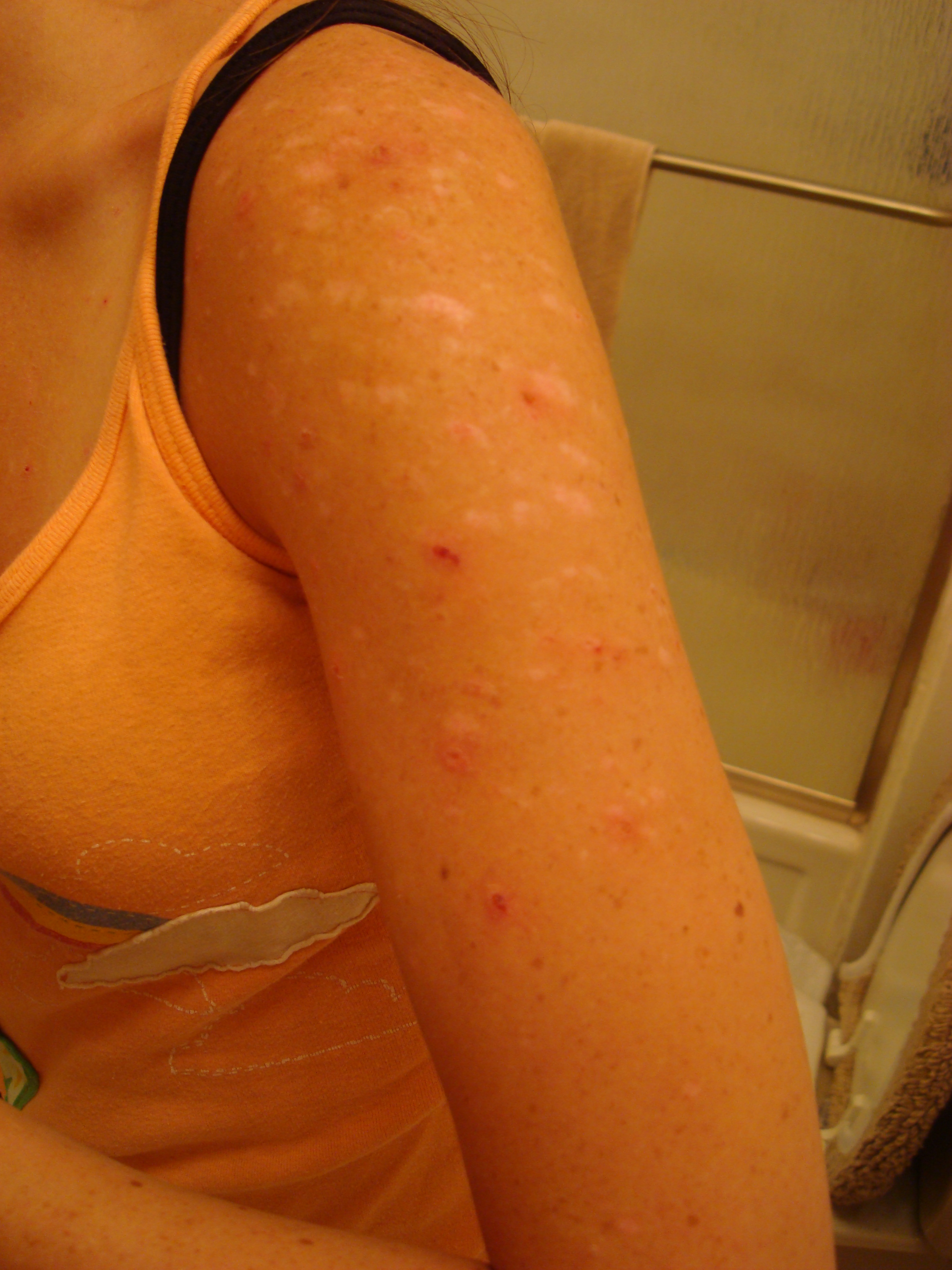 Dermatillomania out of control.